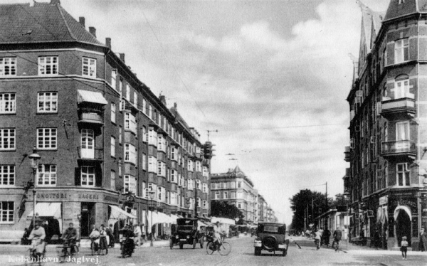 Jagtvej viewed from present-day Nuuks Plads (Borups Allé) in Copenhagen, Denmark